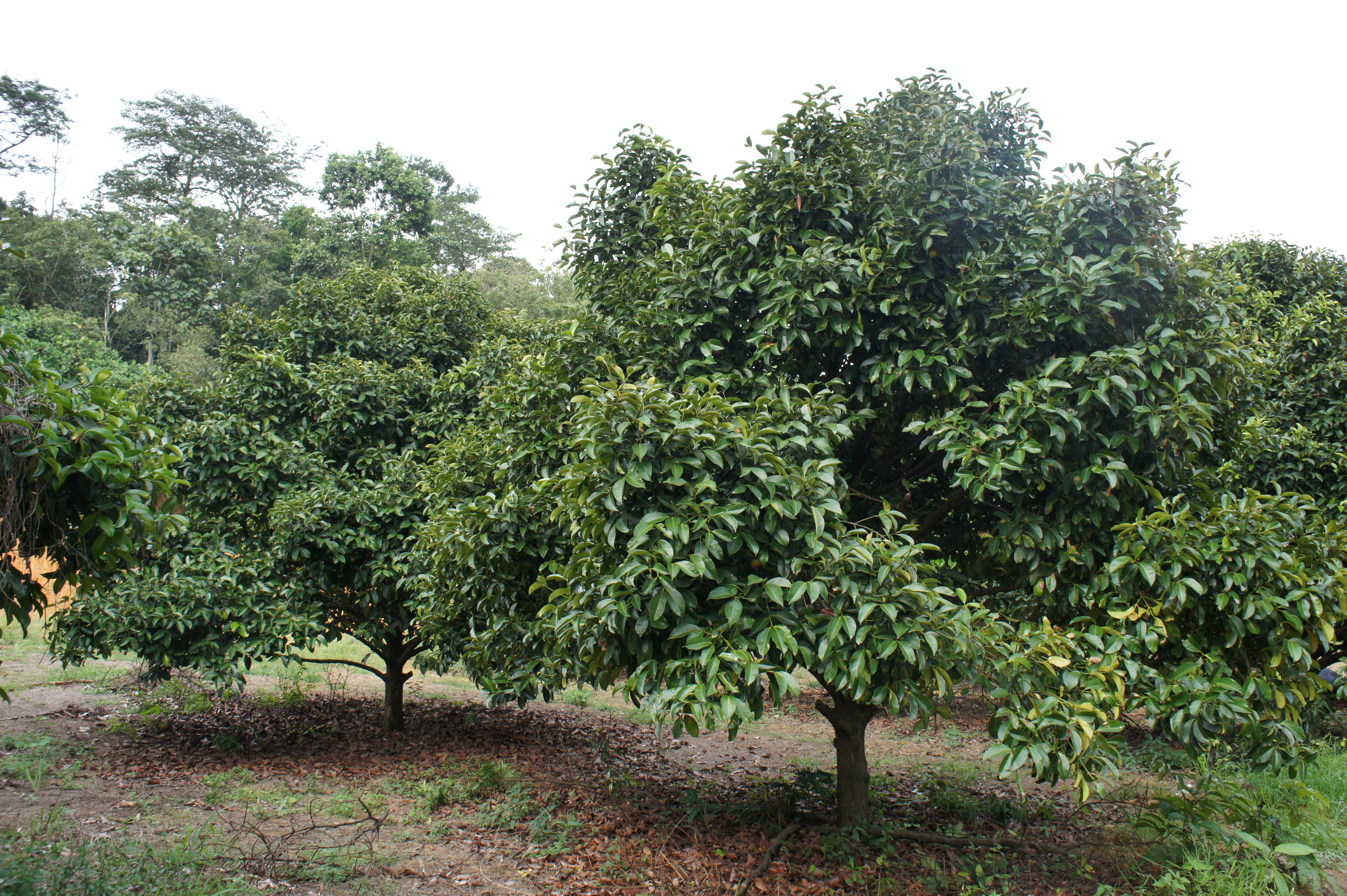 Mangoesteen tree (Garcinia mangostana) in Serdang, Selangor, Malaysia.